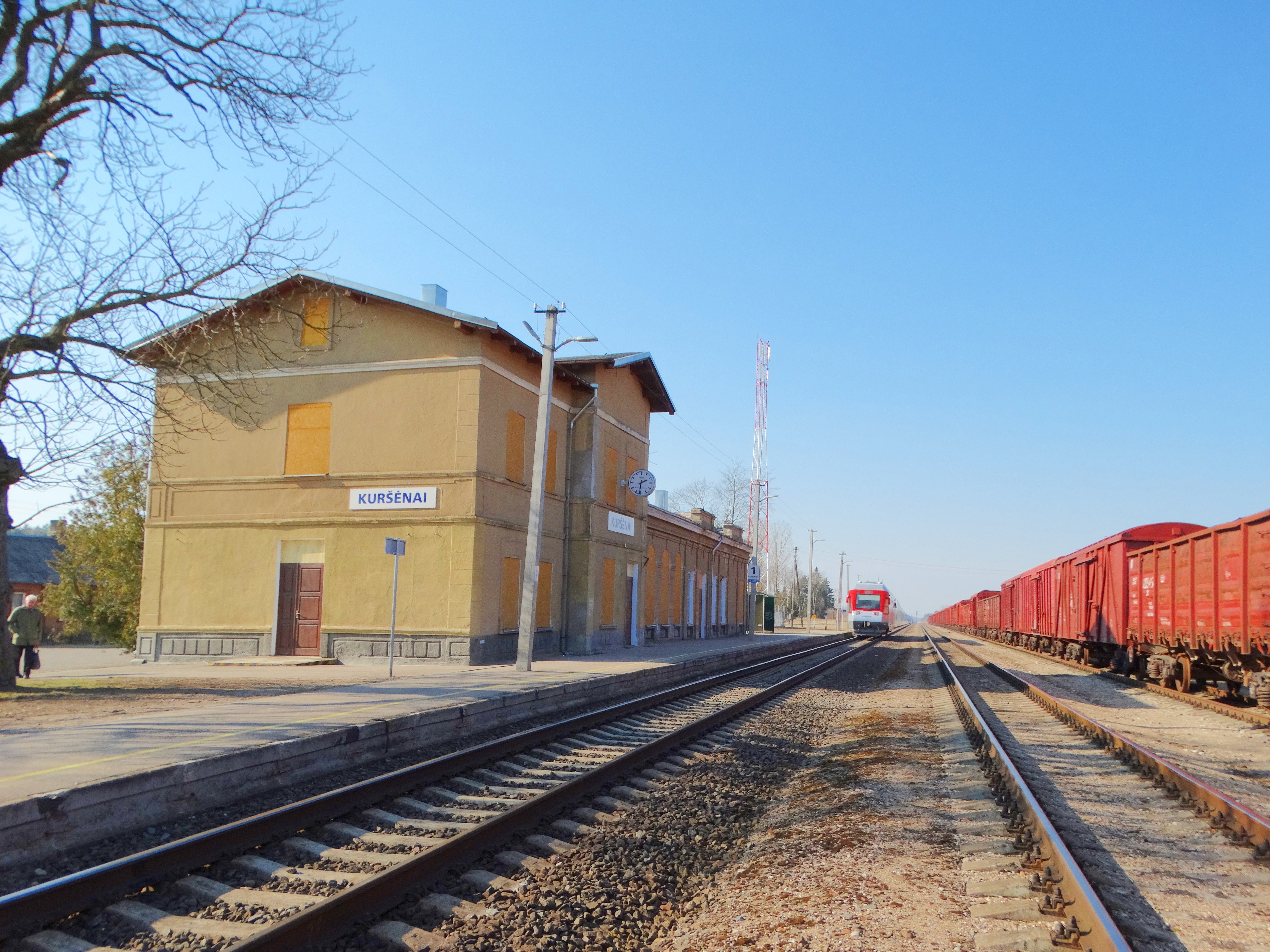 Railway station, Kuršėnai, Šiauliai district, Lithuania